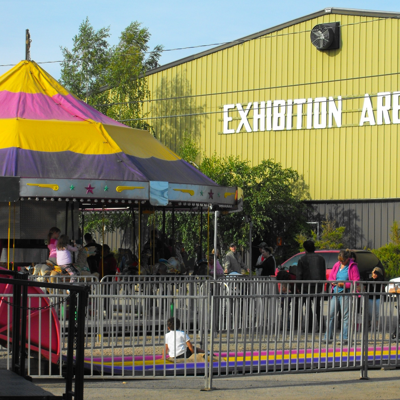 Fairgrounds in operation during the Hants County Exhibition, September 2009. The Hants Exhibition Arena is in the background. Windsor, Nova Scotia, Canada